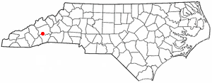 Category:North Carolina Dot Maps